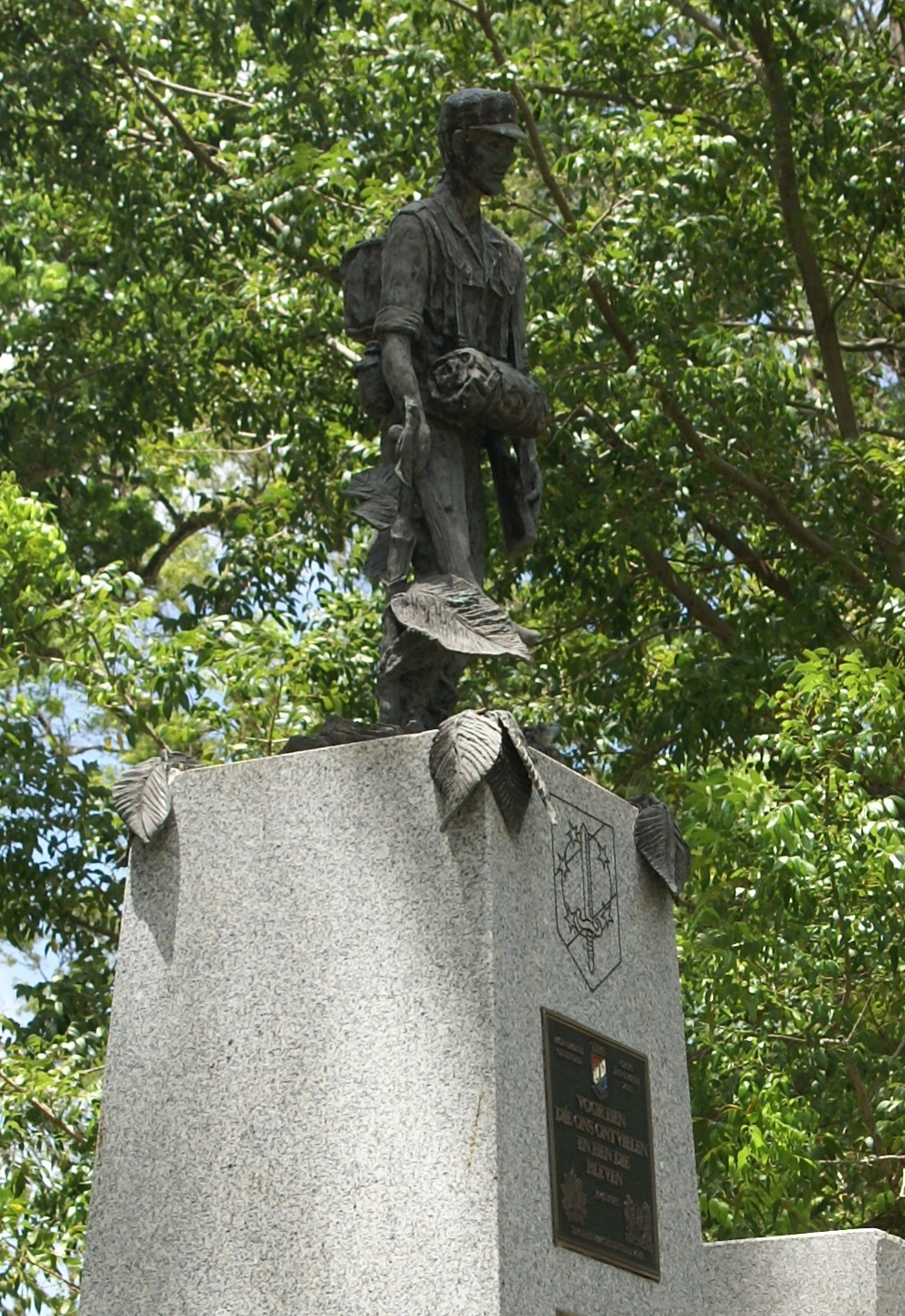 TRIS-monument, near Fort Zeelandia, Paramaribo, Surinam. Detail.